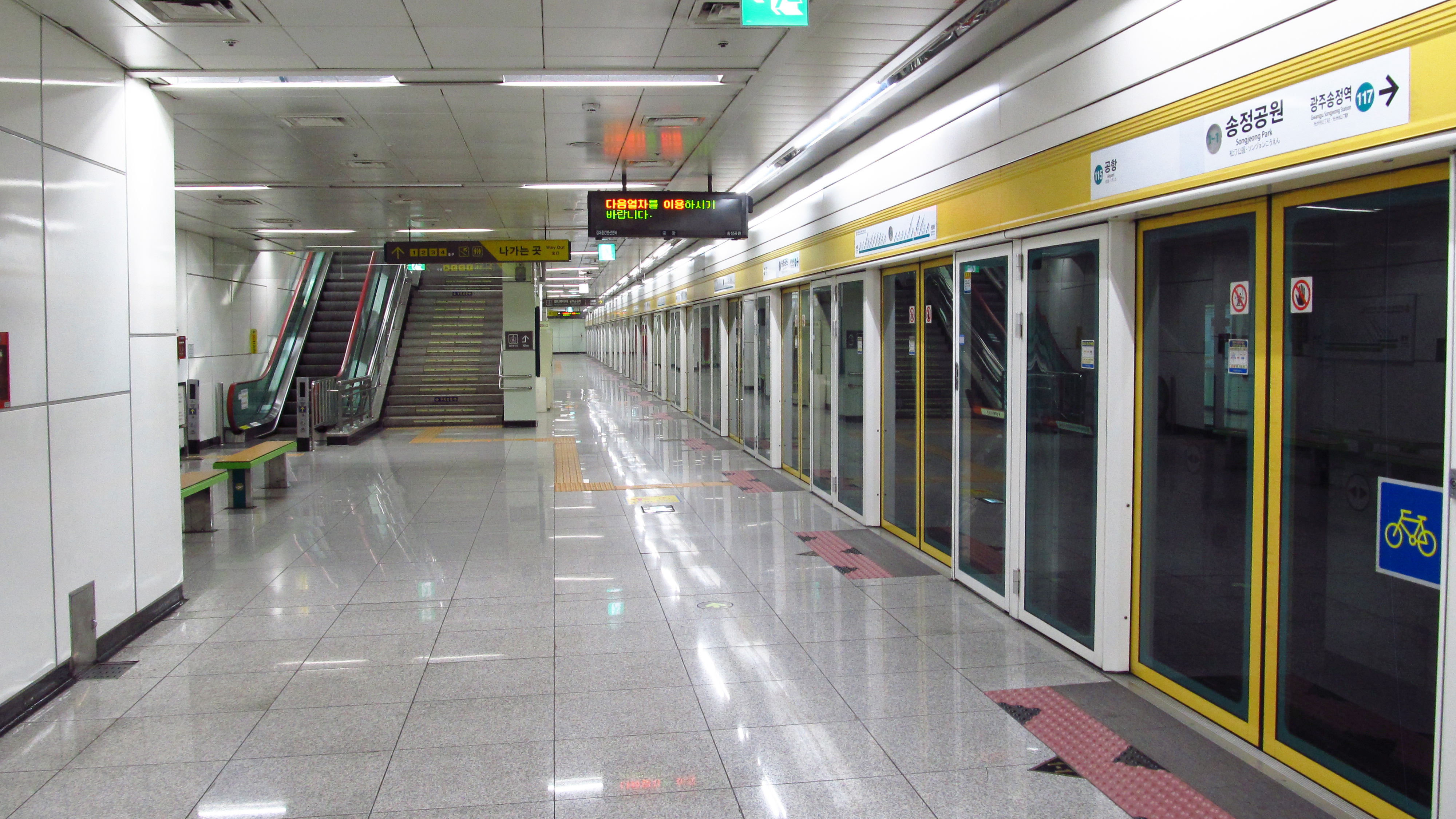 The Pyeongdong-bound platform at Songjeong Park Station on Gwangju Metro Line 1 in Gwangsan-gu, Gwangju, Republic of Korea(South Korea)